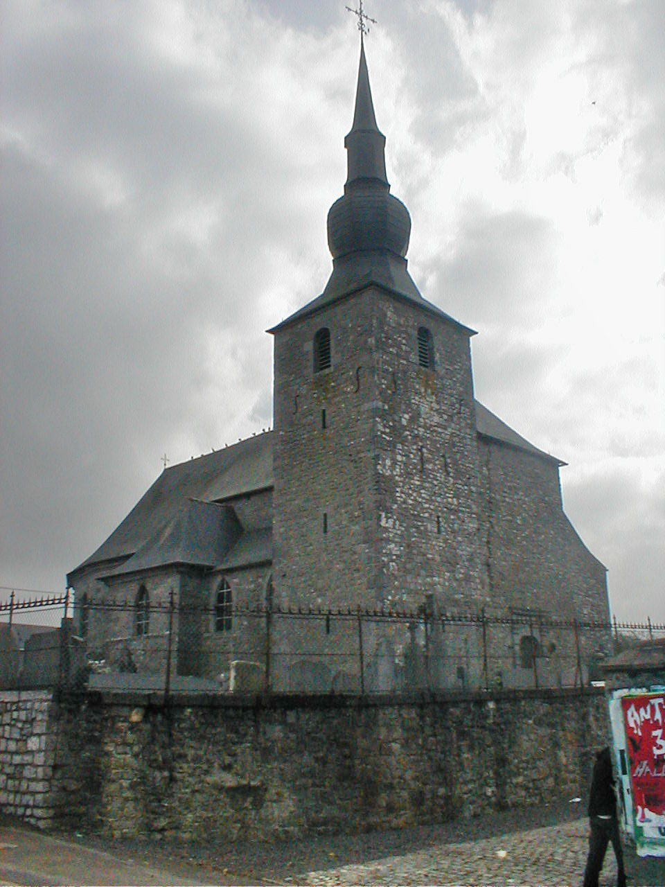 church of Achêne Walon: eglijhe d' Achinne e-n on sordjoû (portrait saetchî pa L. Mahin).